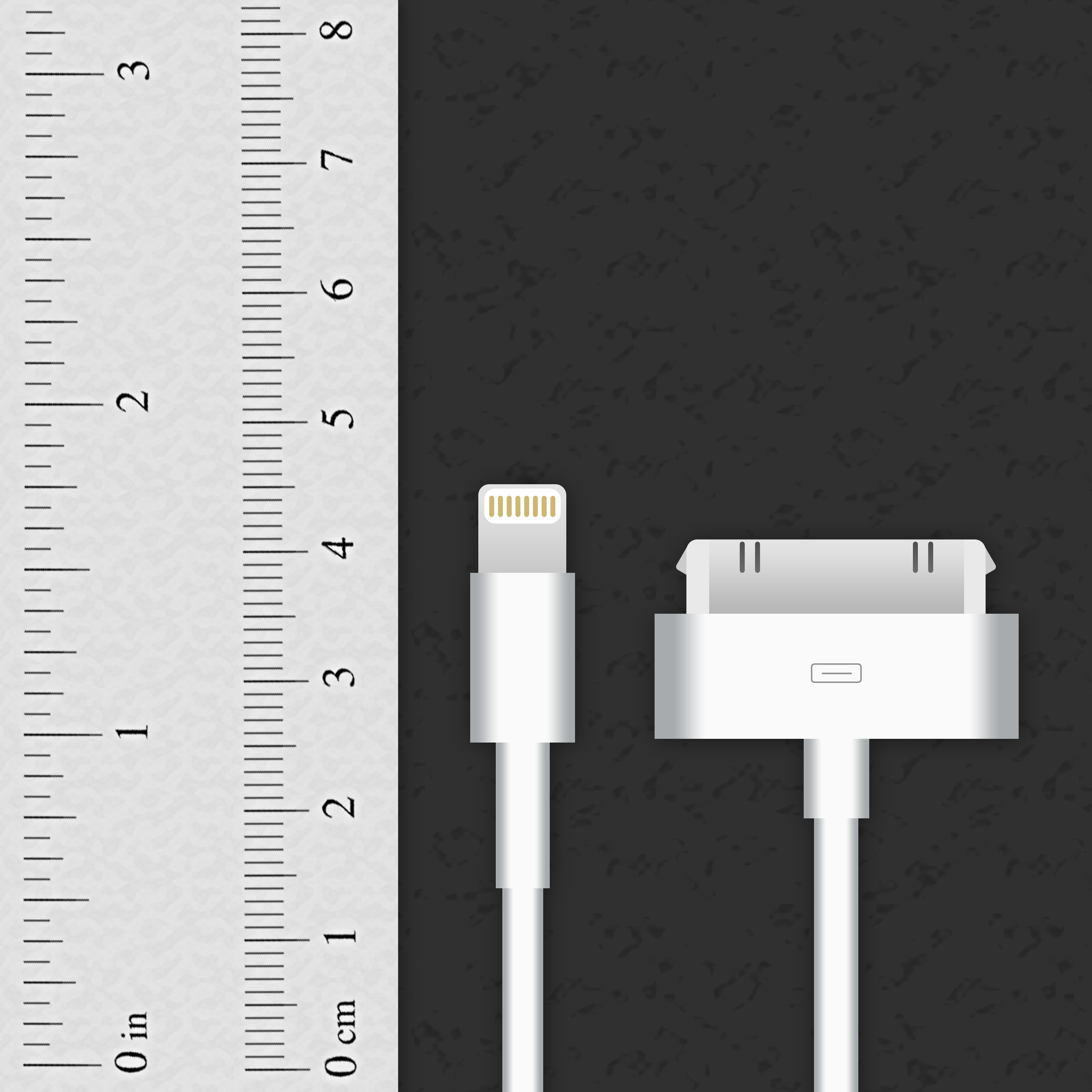 Apple Lightning and 30 pin comparison